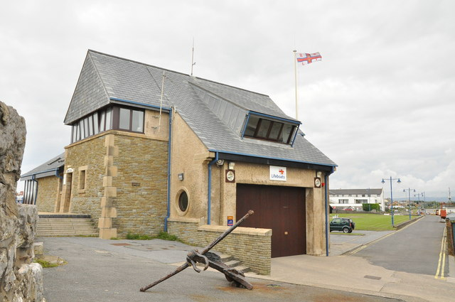 Lifeboat Station - Porthcawl